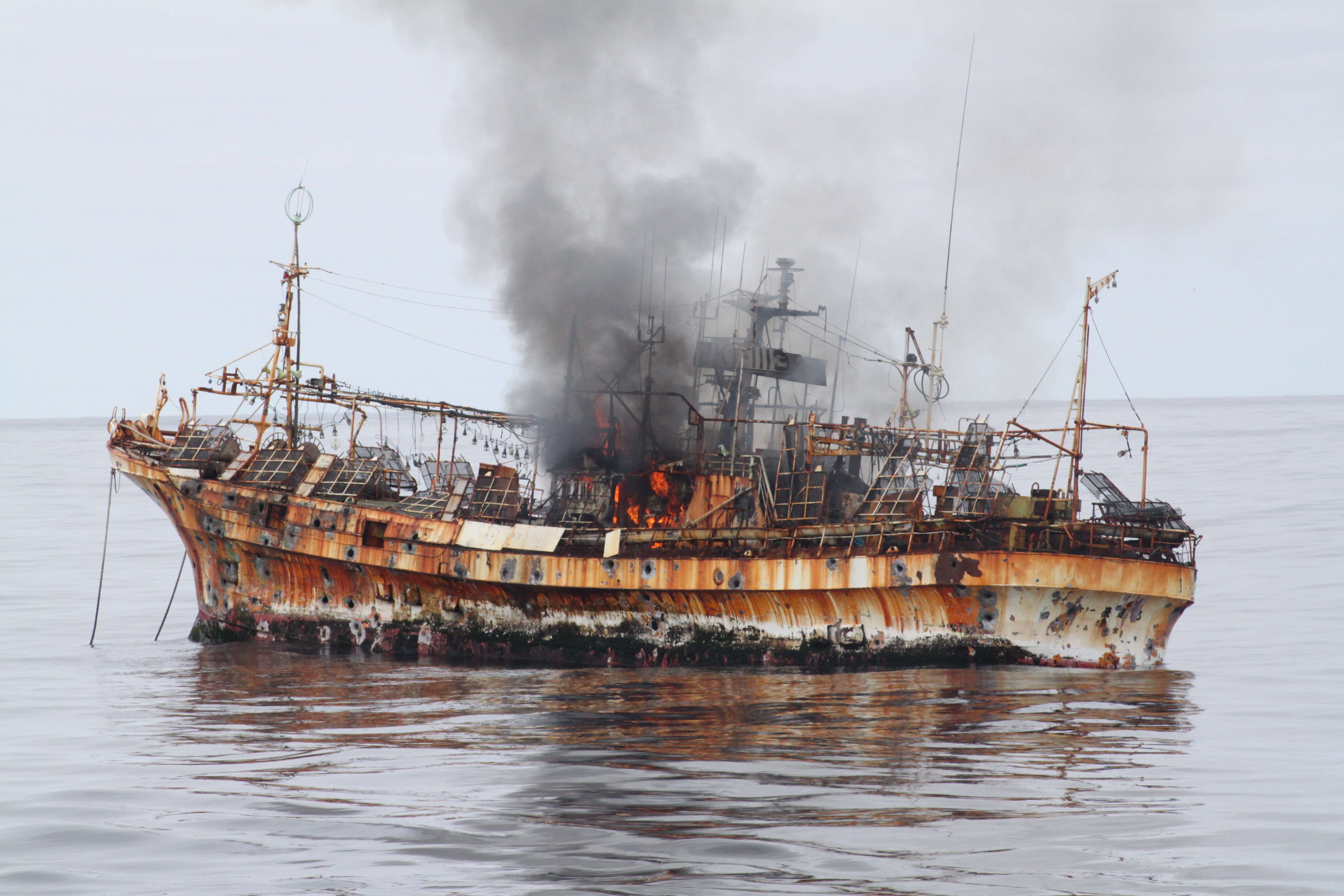 Gulf of Alaska - The Japanese fishing vessel, Ryou-Un Maru, shows significant signs of damage after the Coast Guard Cutter Anancapa fired explosive ammunition into it 180 miles west of the Southeast Alaskan coast April 5, 2012.